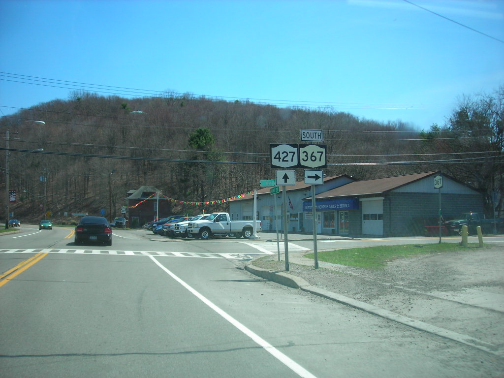 NY 367 at NY 427. NY 367 southbound is viewable from the intersection.